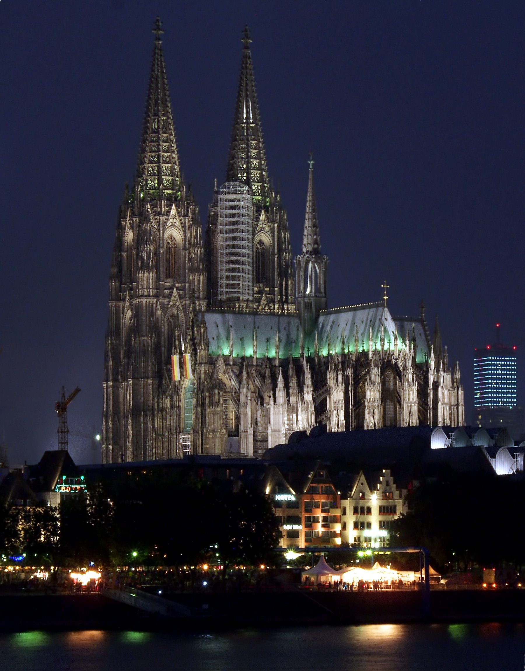 Cologne Cathedral at night